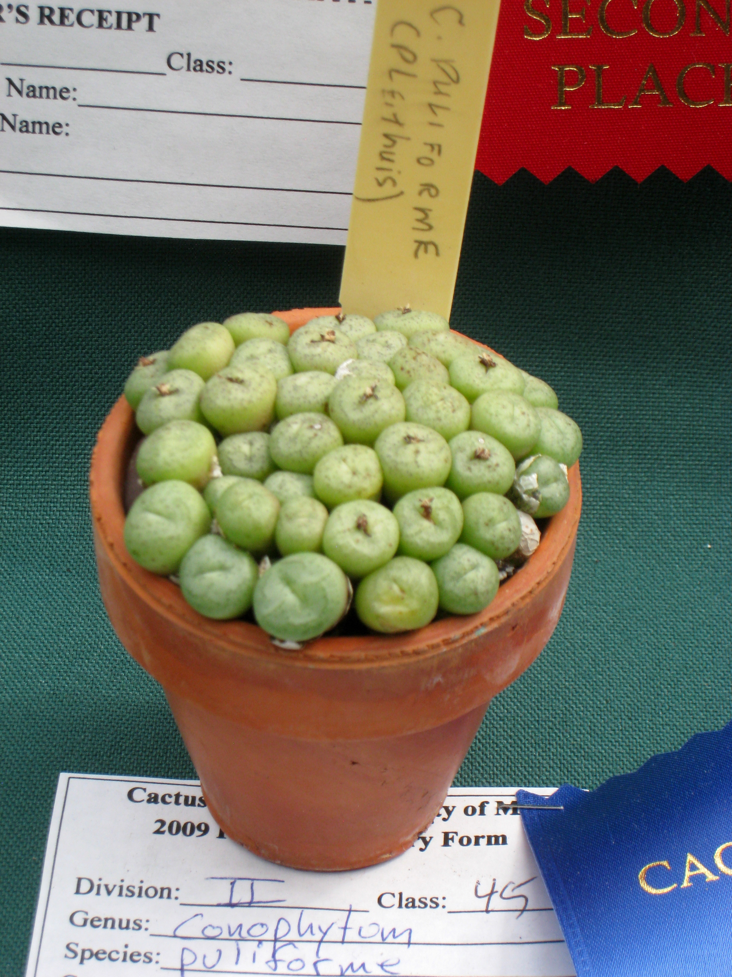 Conophytum piluliforme, in Tower Hill Botanic Garden, Boylston, Massachusetts, USA.